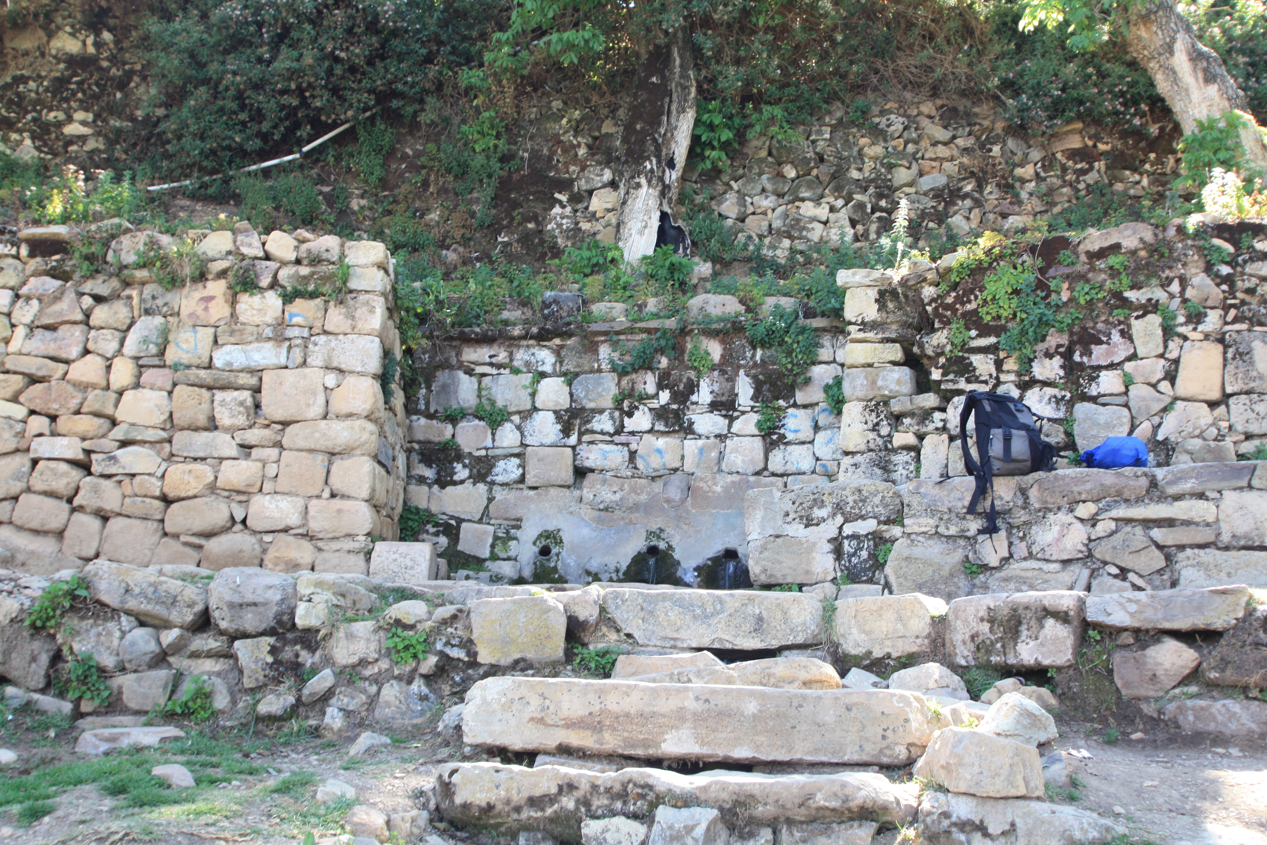 Inca stairs and fountain in Yumani, Isla del Sol, Bolivia